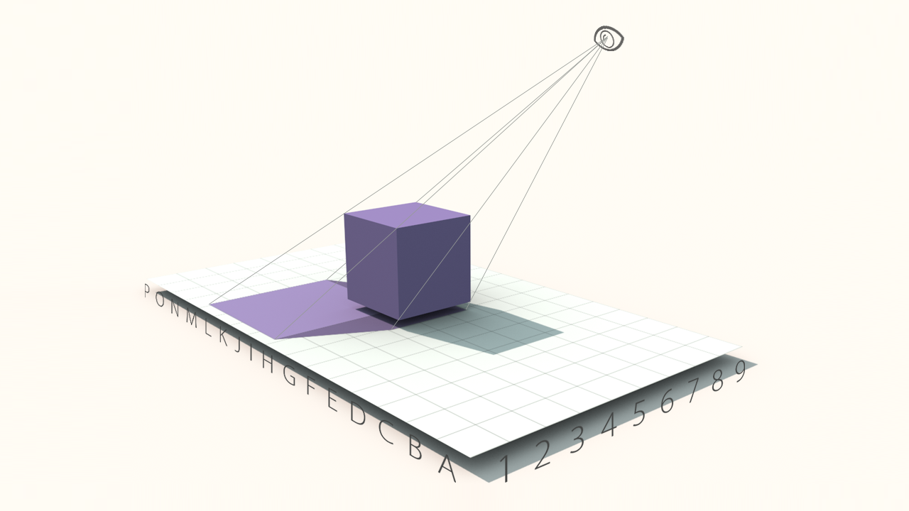 MotionParallax3D display - 3'rd side POV